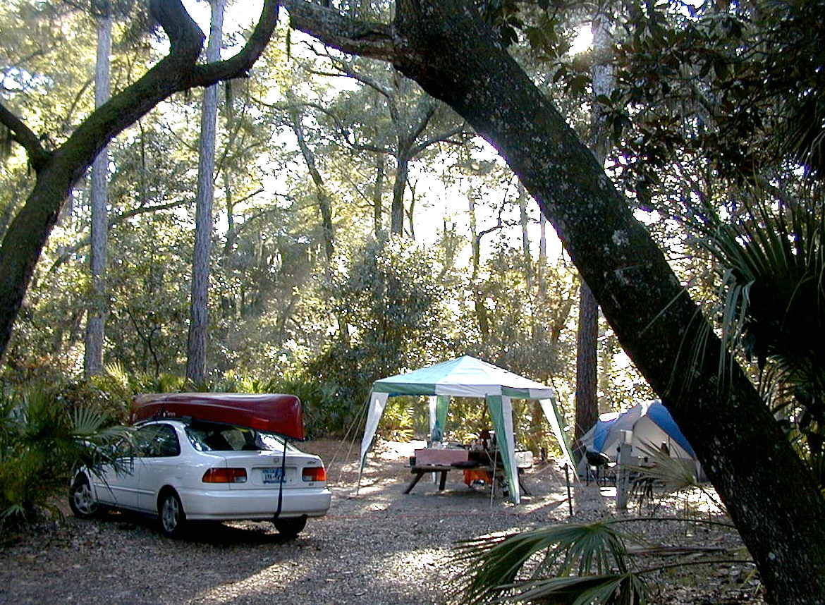 Car Camping at Hunting Island State Park — in South Carolina, U.S. Credits Taken by User:Mwanner, June, 2005.